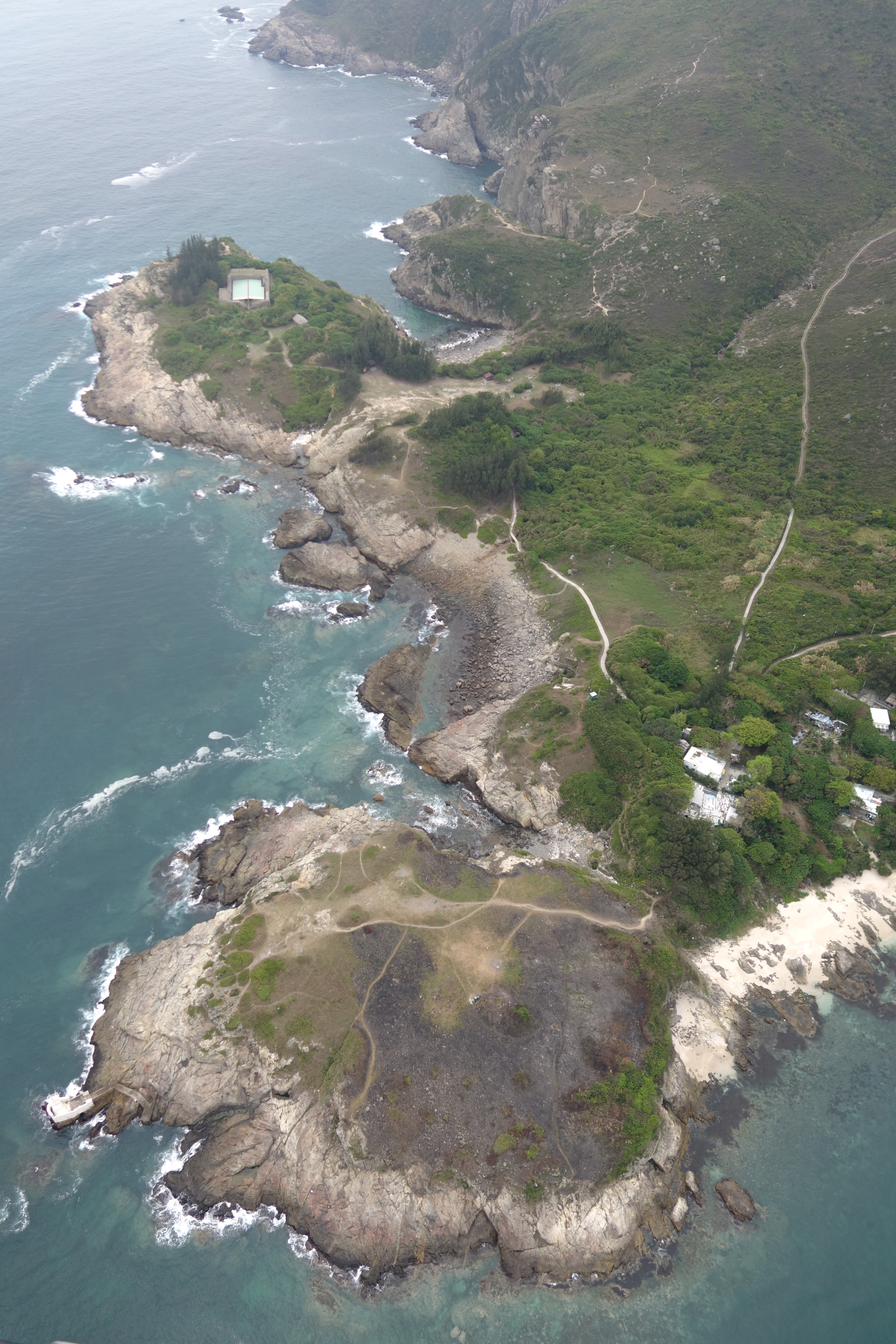 Aerial view of the Northeastern shoreline of Tung Lung Chau and Tung Lung Fort